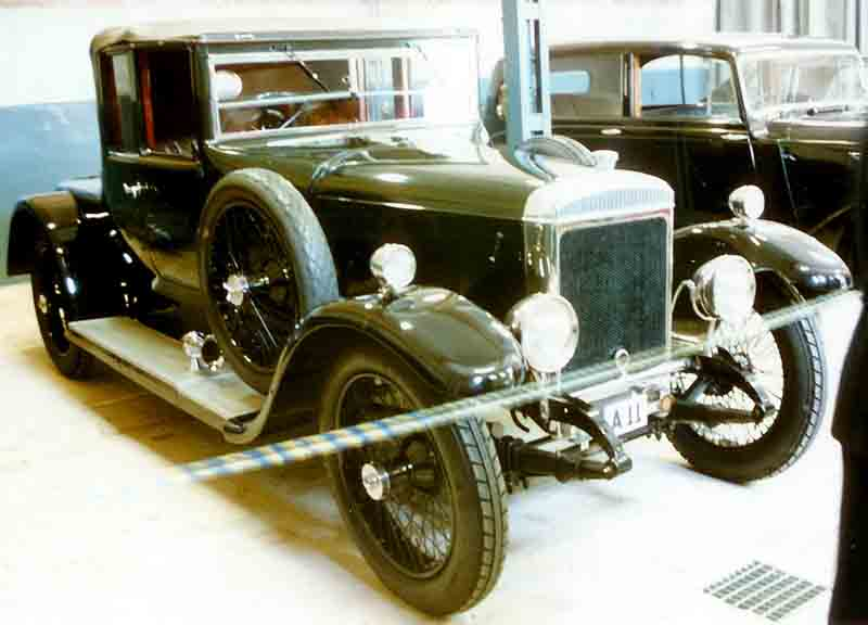 Daimler TB 6-21 Drophead Coupé 1923